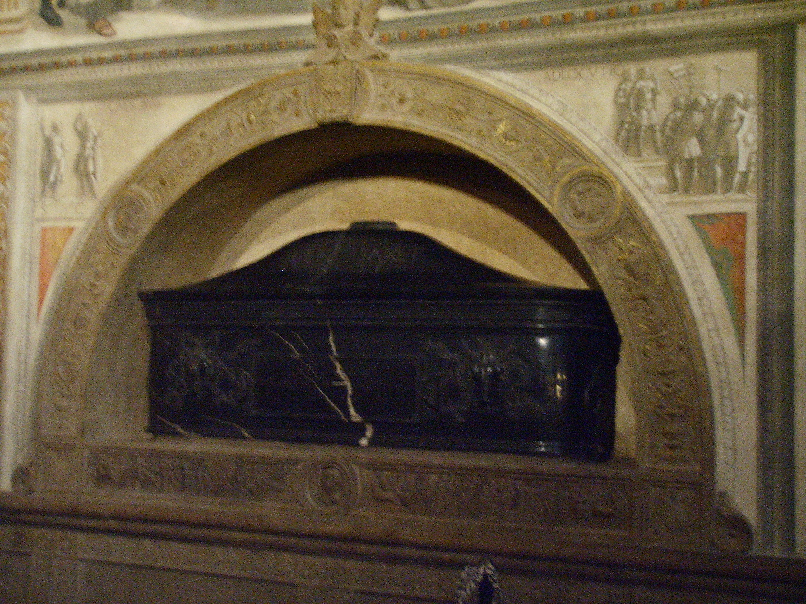 Grave sculpted by Giuliano da Sangallo in the Cappella Sassetti ("Sassetti chapel"), in Santa Trinita church, Florence (Italy).